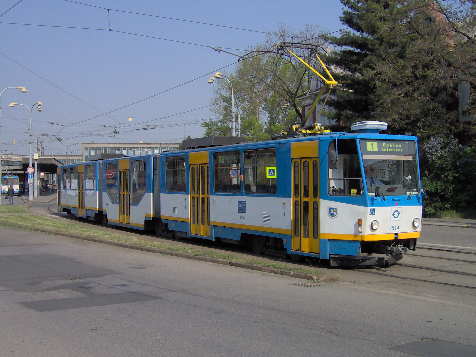 Tatra KT8D5R.N1 tram in Ostrava, Czech Republic